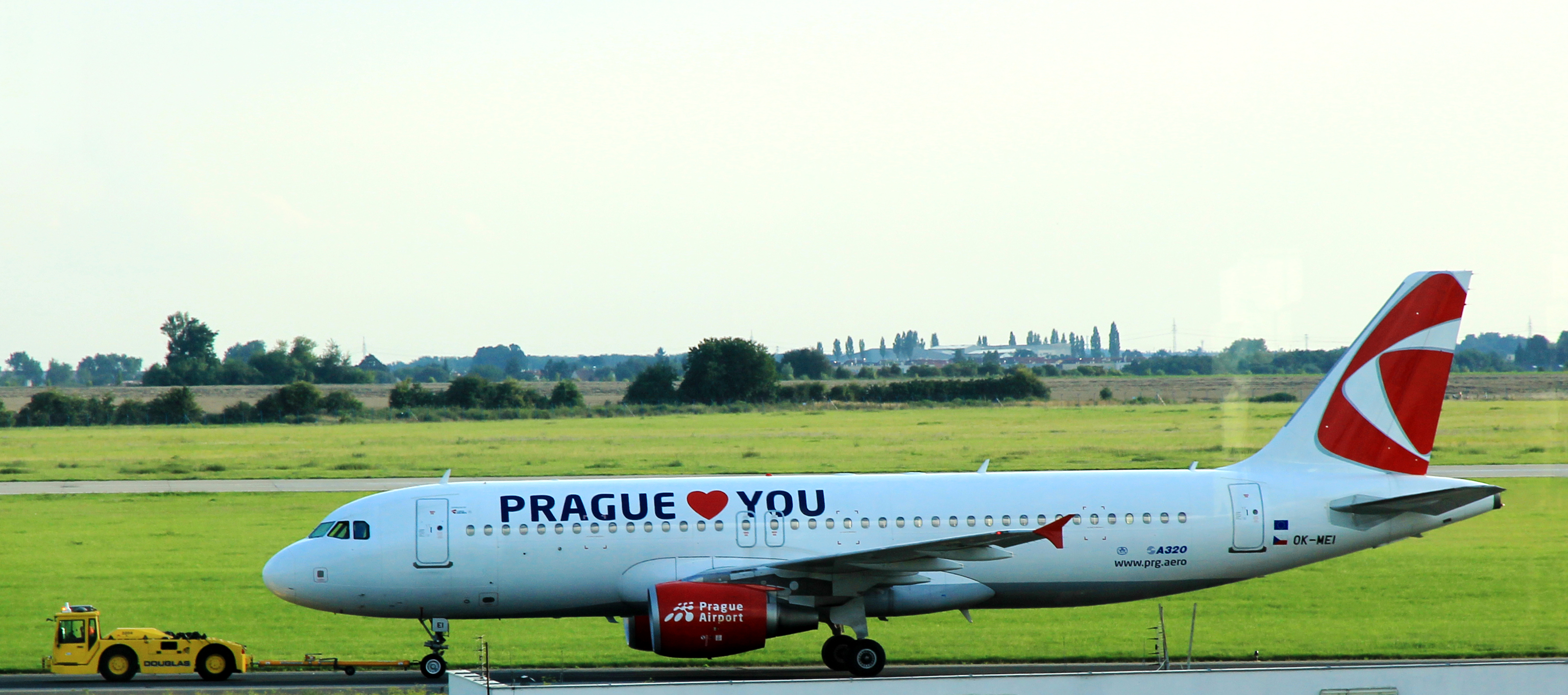 Aircraft registration OK-MEI Airbus A320, Czech aerolines on Václav Havel Airport Prague, Czech Republic